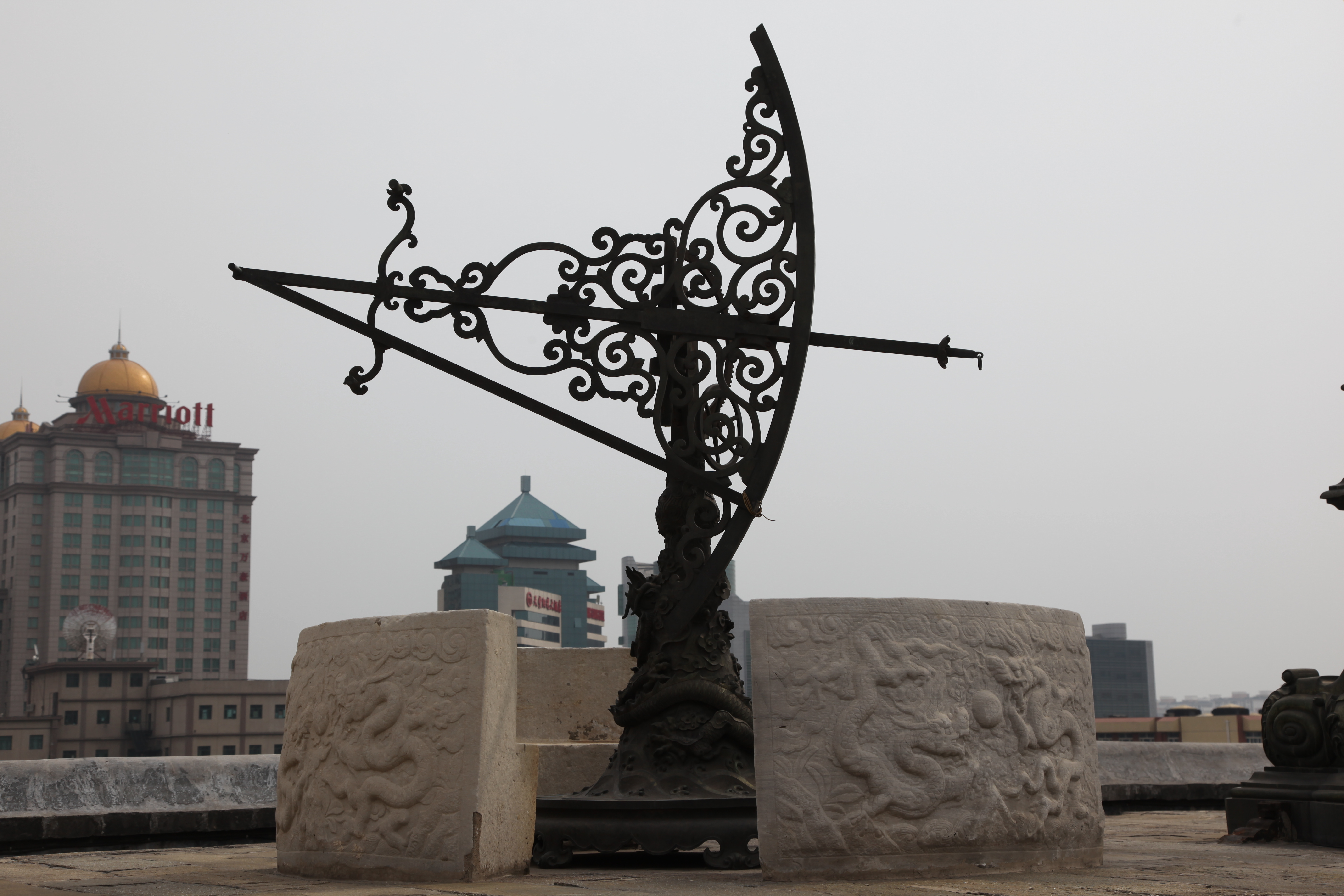 Exhibition description: Sextant Made in 1673 for the purpose of measuring the angular distance between any two stars less than 60 degrees apart as well as the angular diameters of the sun and the moon